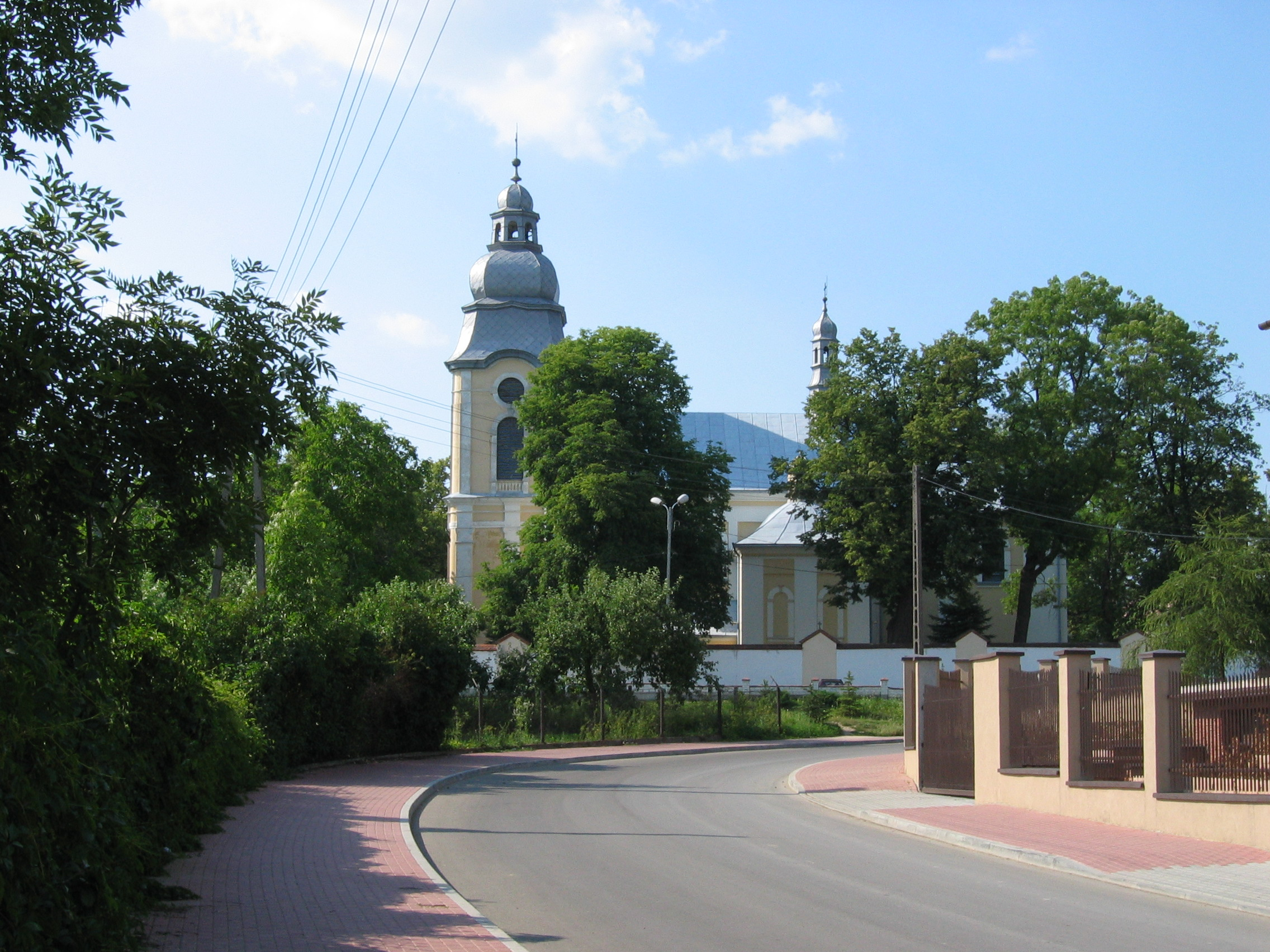 Baroque St. Matthew's Church in Mielec, Poland, built in 1526